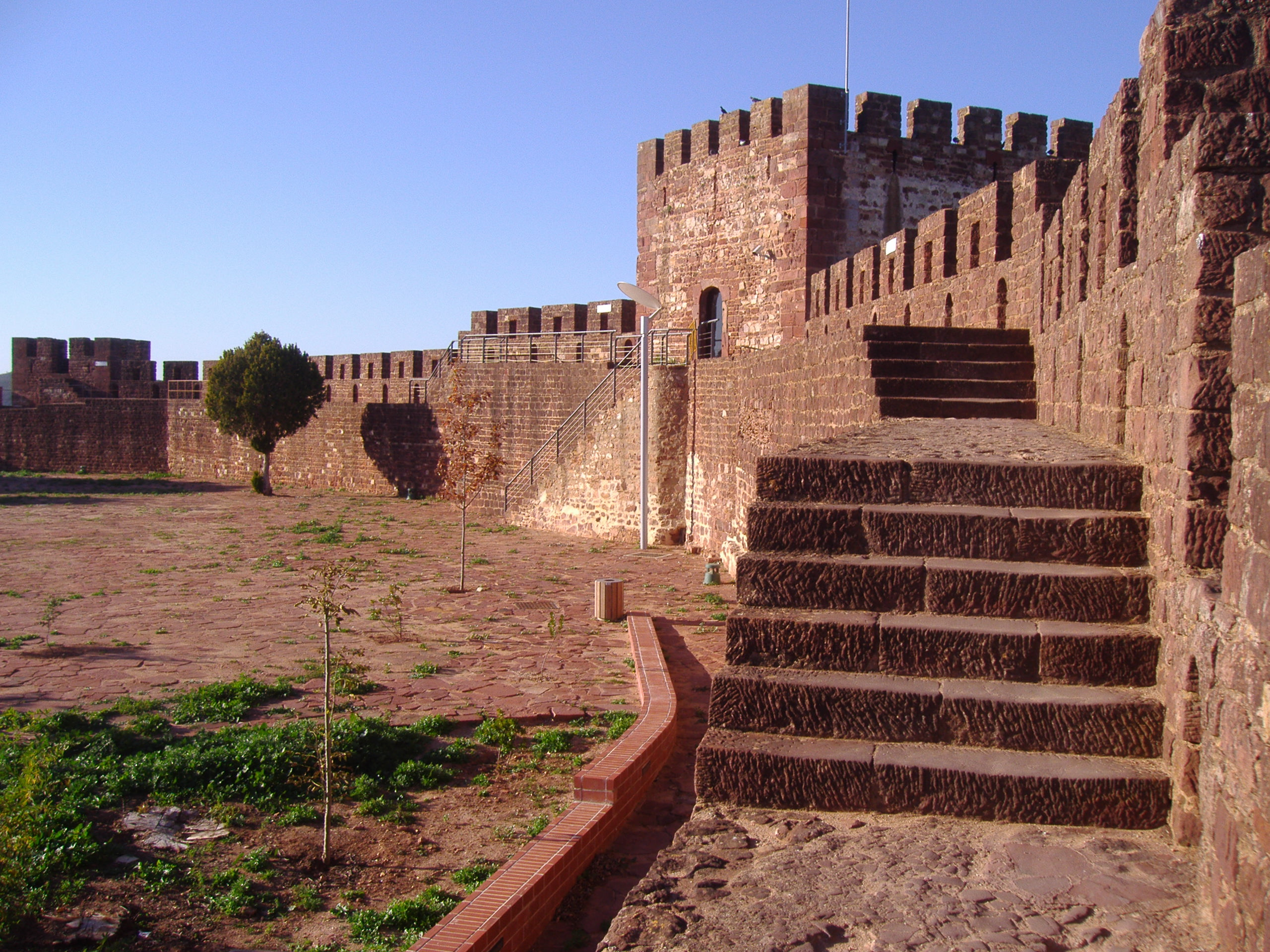 The walls and Tower on the northern elevation of Silves castle. Silves, Algarve, Portugal.